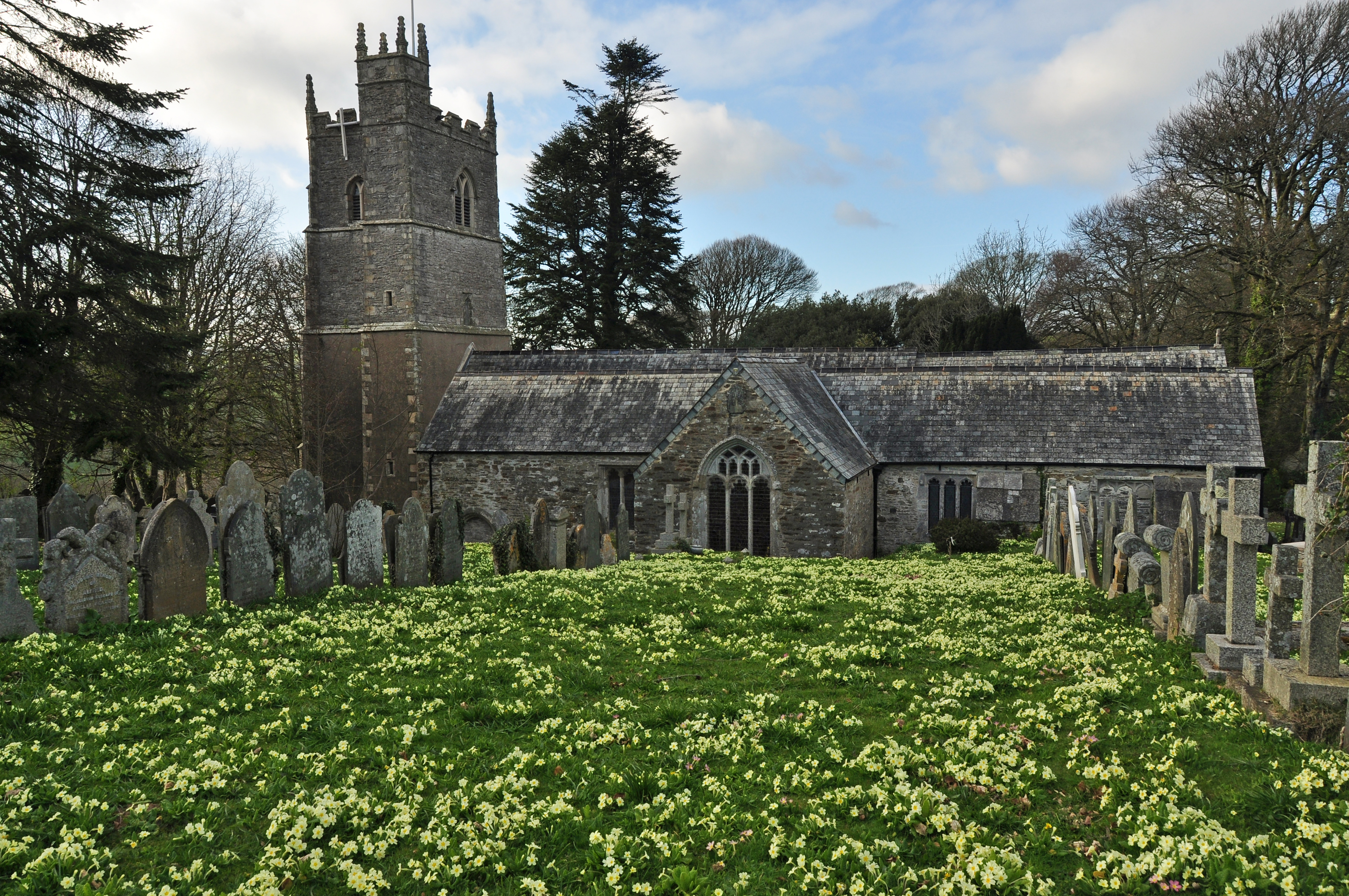 The church of St Martin-by-Looe, near Looe in Cornwall. Flowering primroses cover the churchyard.